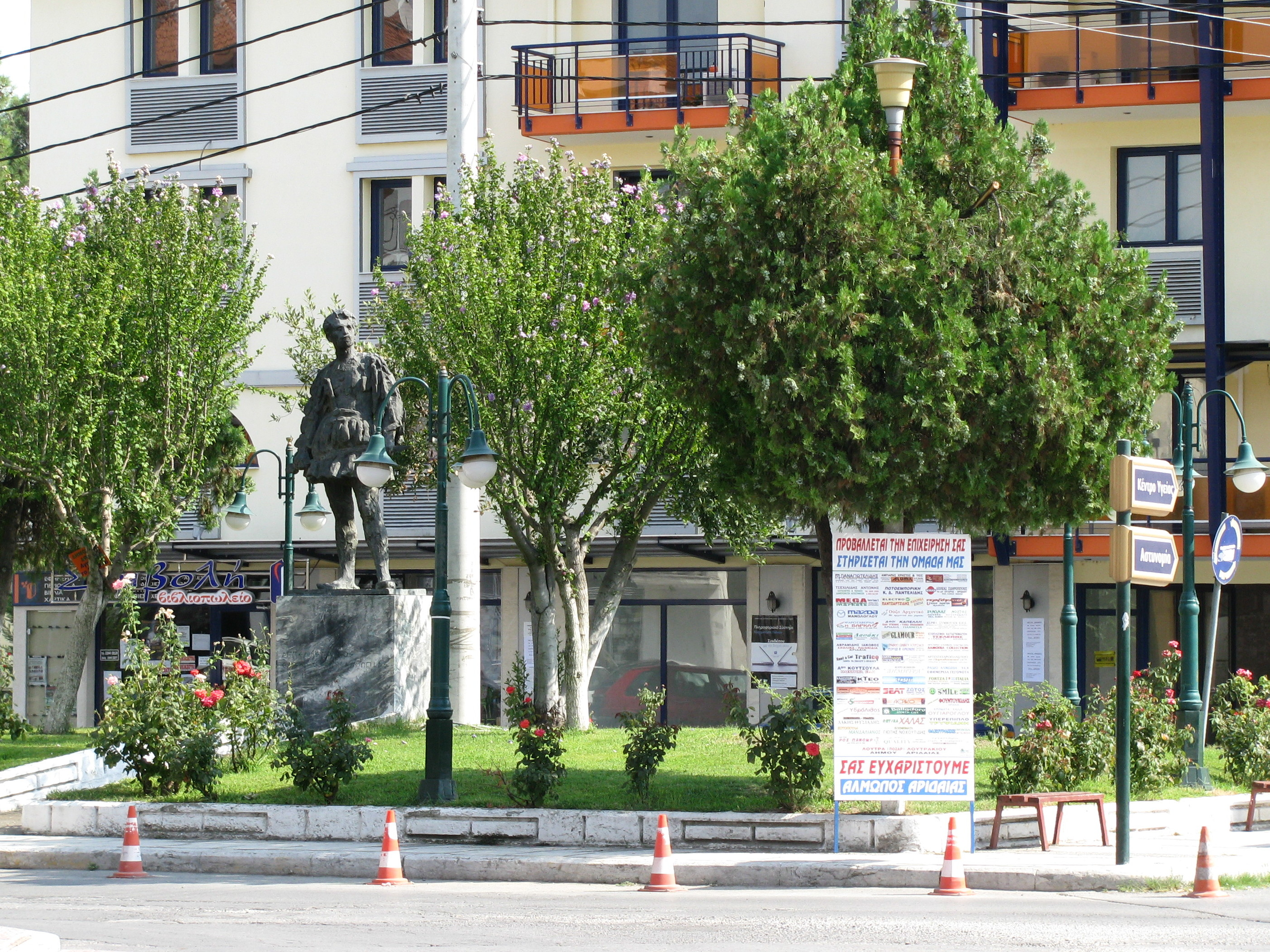 Statue of Aggelis Gatsos in Aridea, Pella prefecture, Greece.